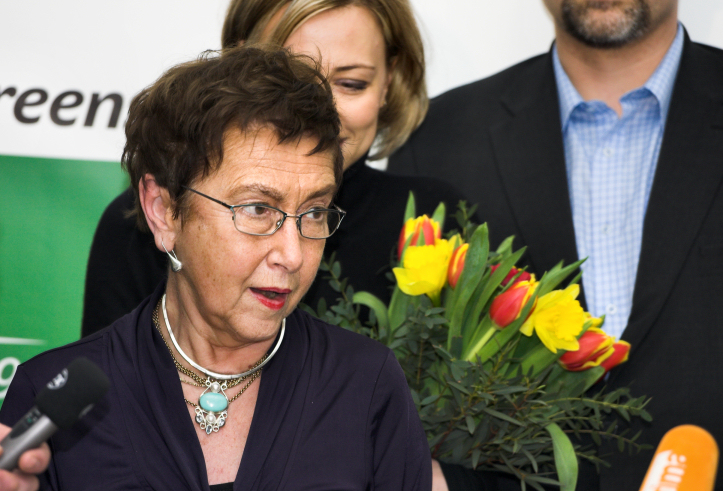 Jiřina Šiklová at Republic Council of Strana zelených (Green Party) in Prague, Czech Republic.